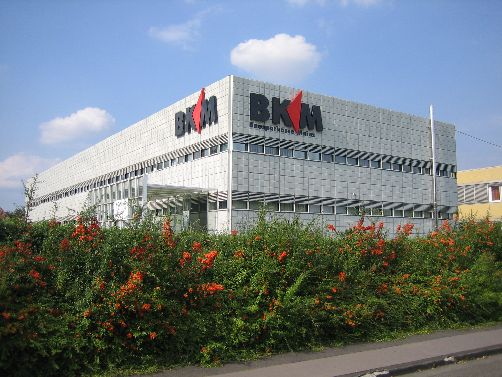 Arne Jacobsen building for Novo Nordisk in Mainz, south west side